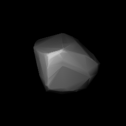 3D convex shape model of 722 Frieda, computed using light curve inversion techniques. J. Hanuš, J. Ďurech, M. Brož, B. D. Warner (June 2011). "A study of asteroid pole-latitude distribution based on an extended set of shape models derived by the lightcurve inversion method". Astronomy and Astrophysics 530: A134. ISSN 0004-6361. arXiv